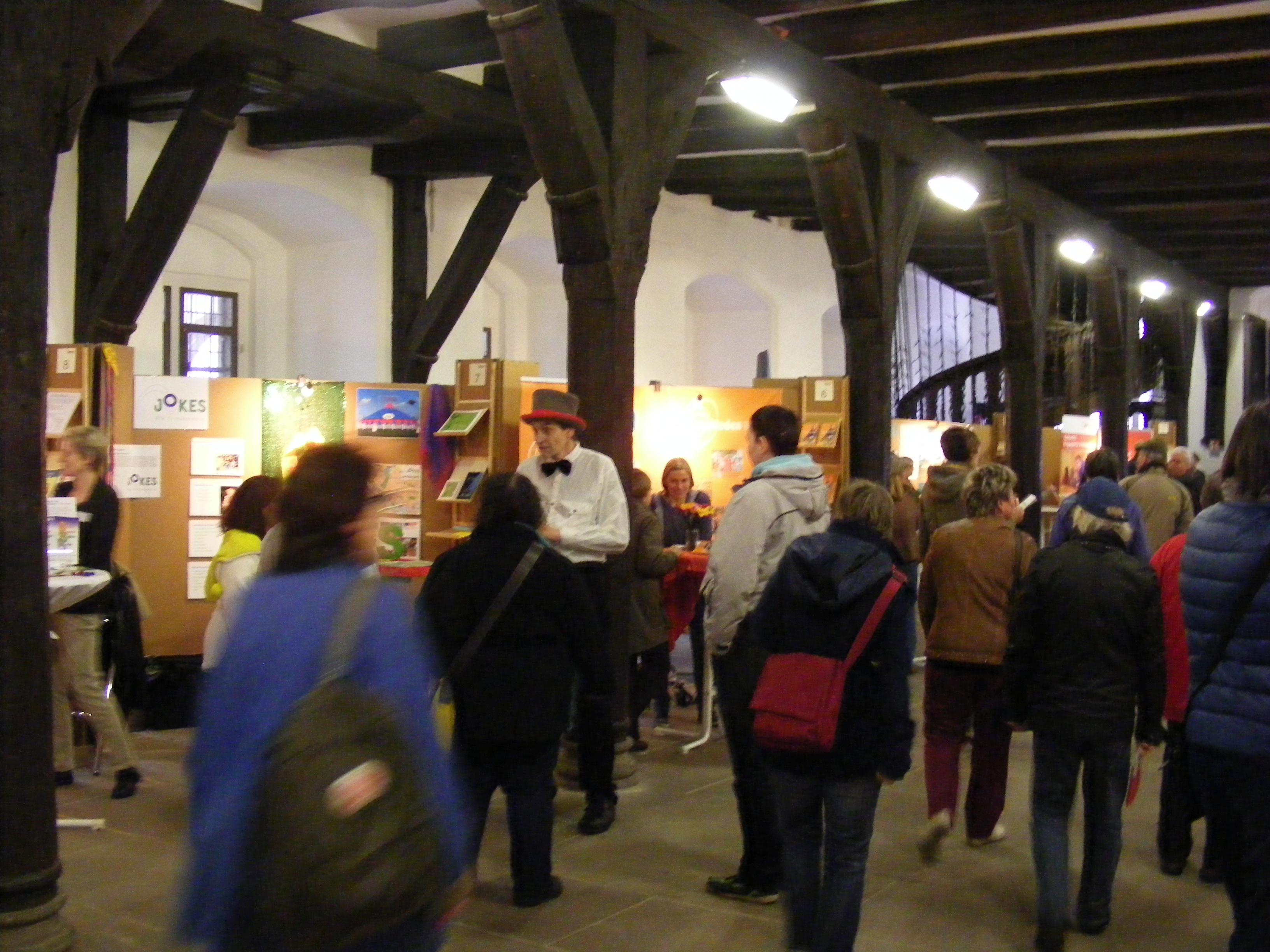 Lower Hall of the Townhall of Bremen, seen from east to west, during a fair of "Akitvoli" voluteers' agency